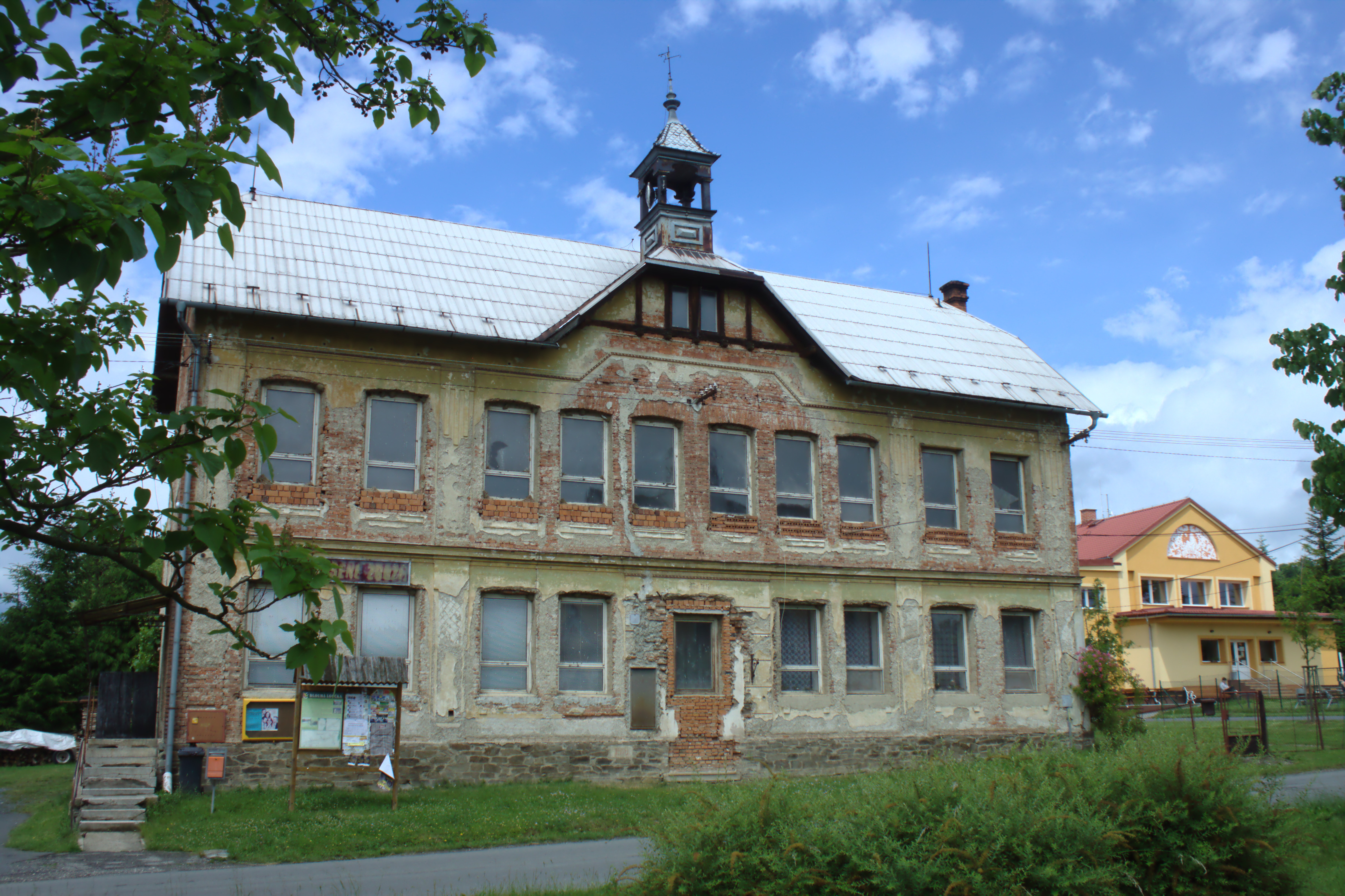 Former store in the village of Plinkout, Olomouc Region, CZ